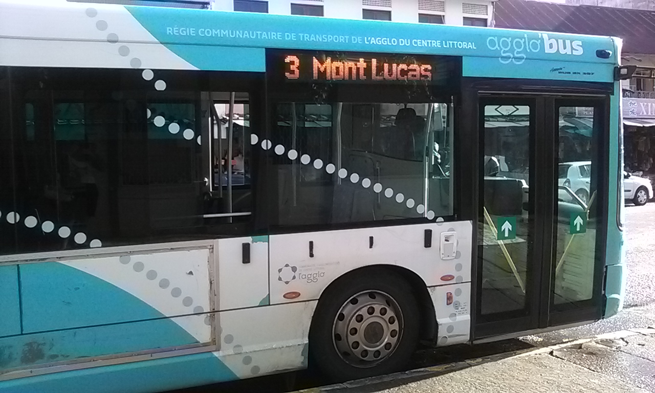 A bus from chipboard, public transport, in the city of Cayenne, French Guiana, May 2016.